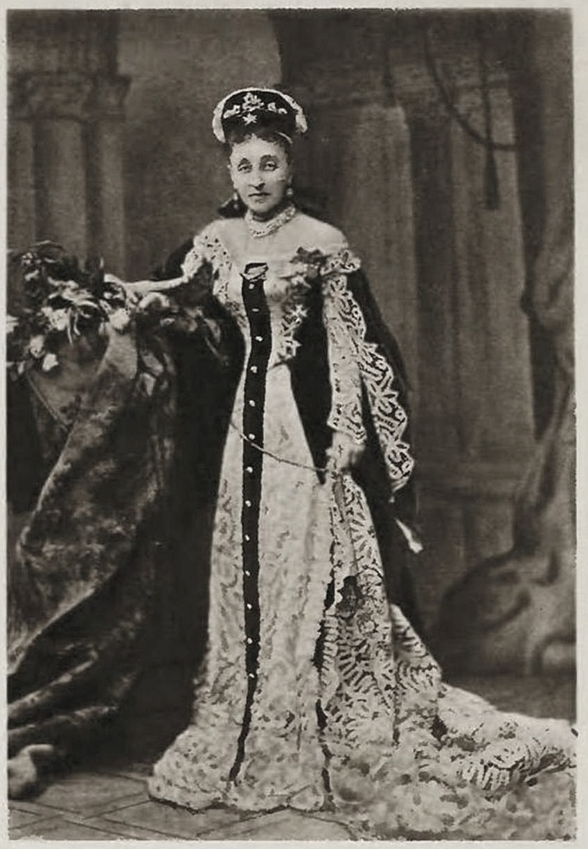 Olga Alekseyevna Novikova (1840—1925)